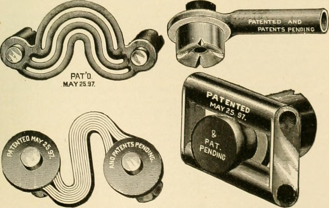 Eureka Rail Bonds, displaying "Patent" and "Patent Pending" ("Pat. Pending") marks.